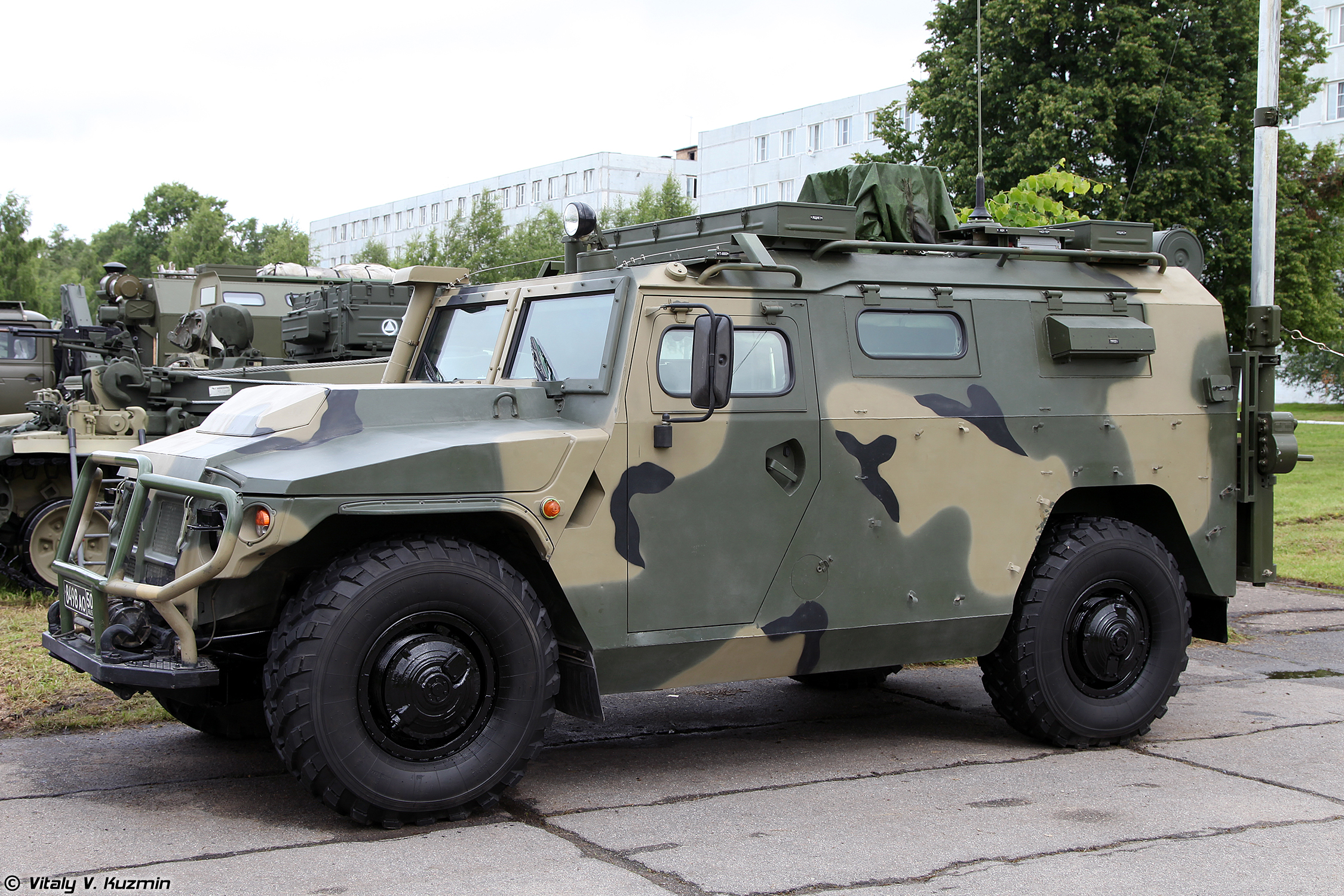 Неопознанная модификация КШМ на базе АМН 233114 Тигр-М (Unknown modification of command and signal vehicle on AMN 233114 Tigr-M base)